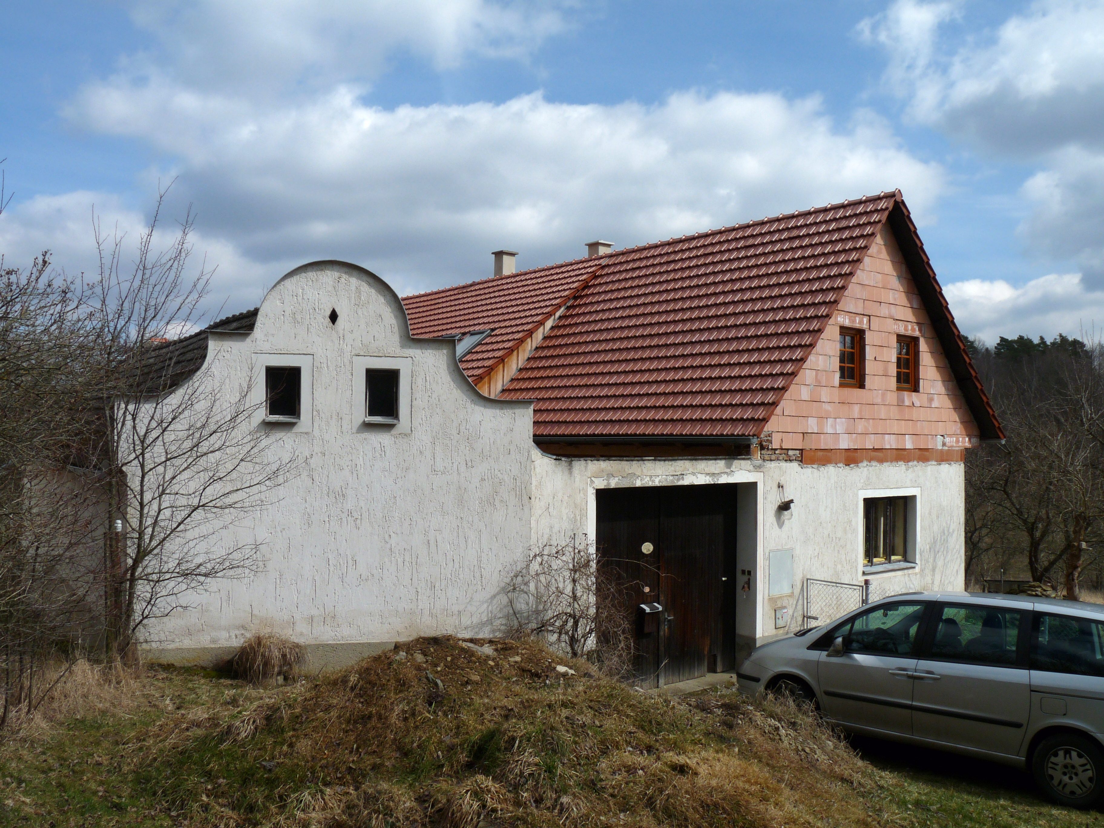 House No 106 the village of Machovice, South Bohemian Region, Czech Republic.